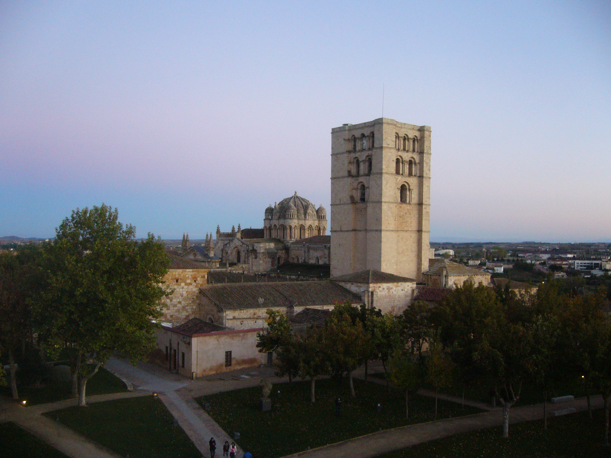 The Cathedral of Zamora seen from the castle of Urraca.